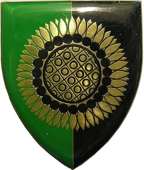 SADF Regiment Botha Shoulder Flash